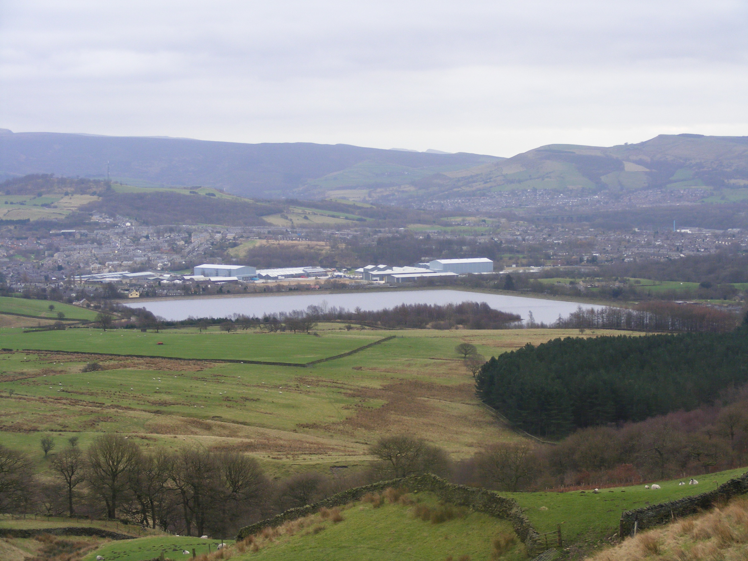 Arnfield Reservoir in the Peak District